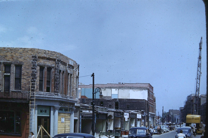 Downtown Sarnia Tornado Aftermath